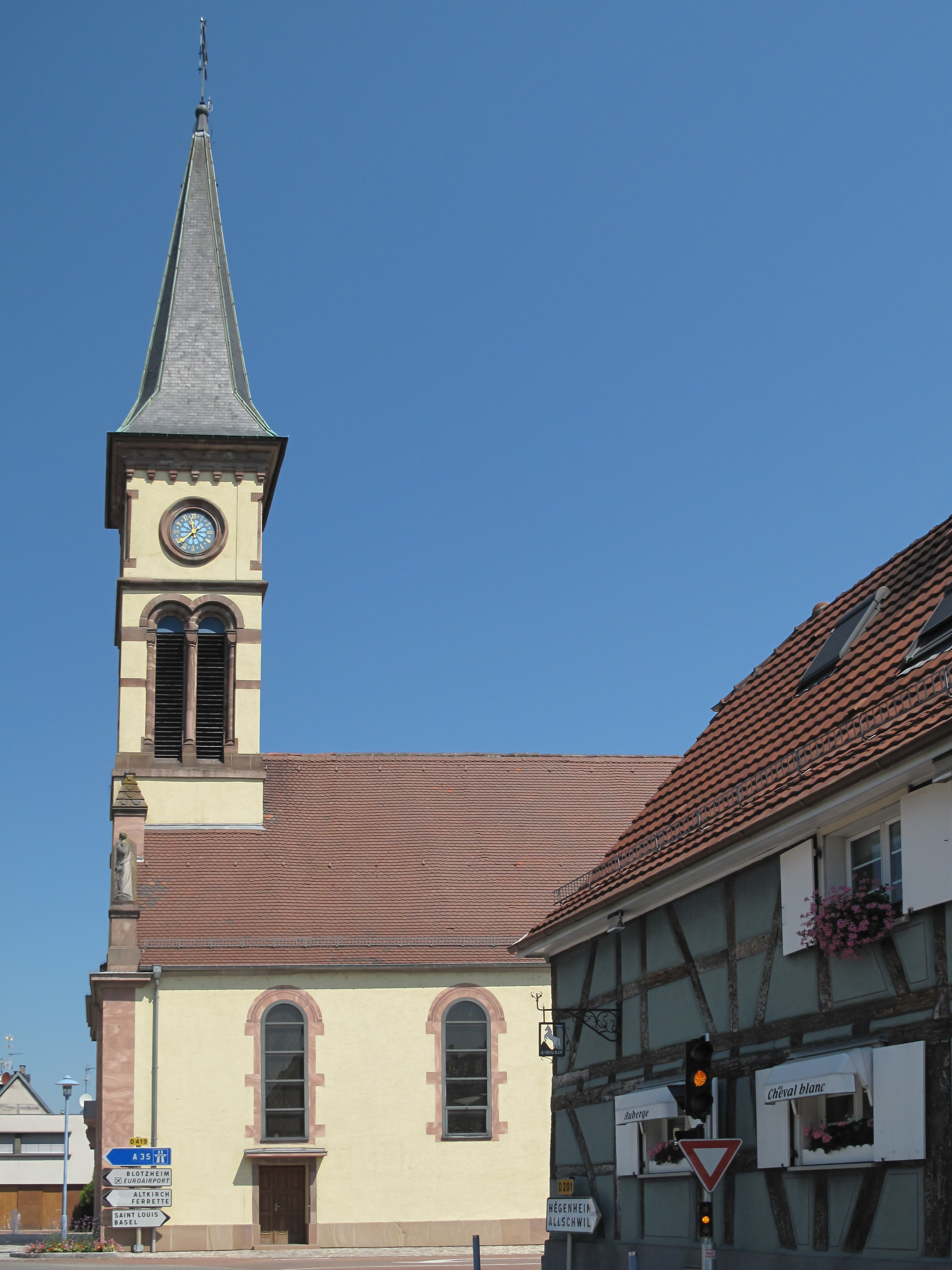 Hésingue, churxch: l'église Saint-Laurent